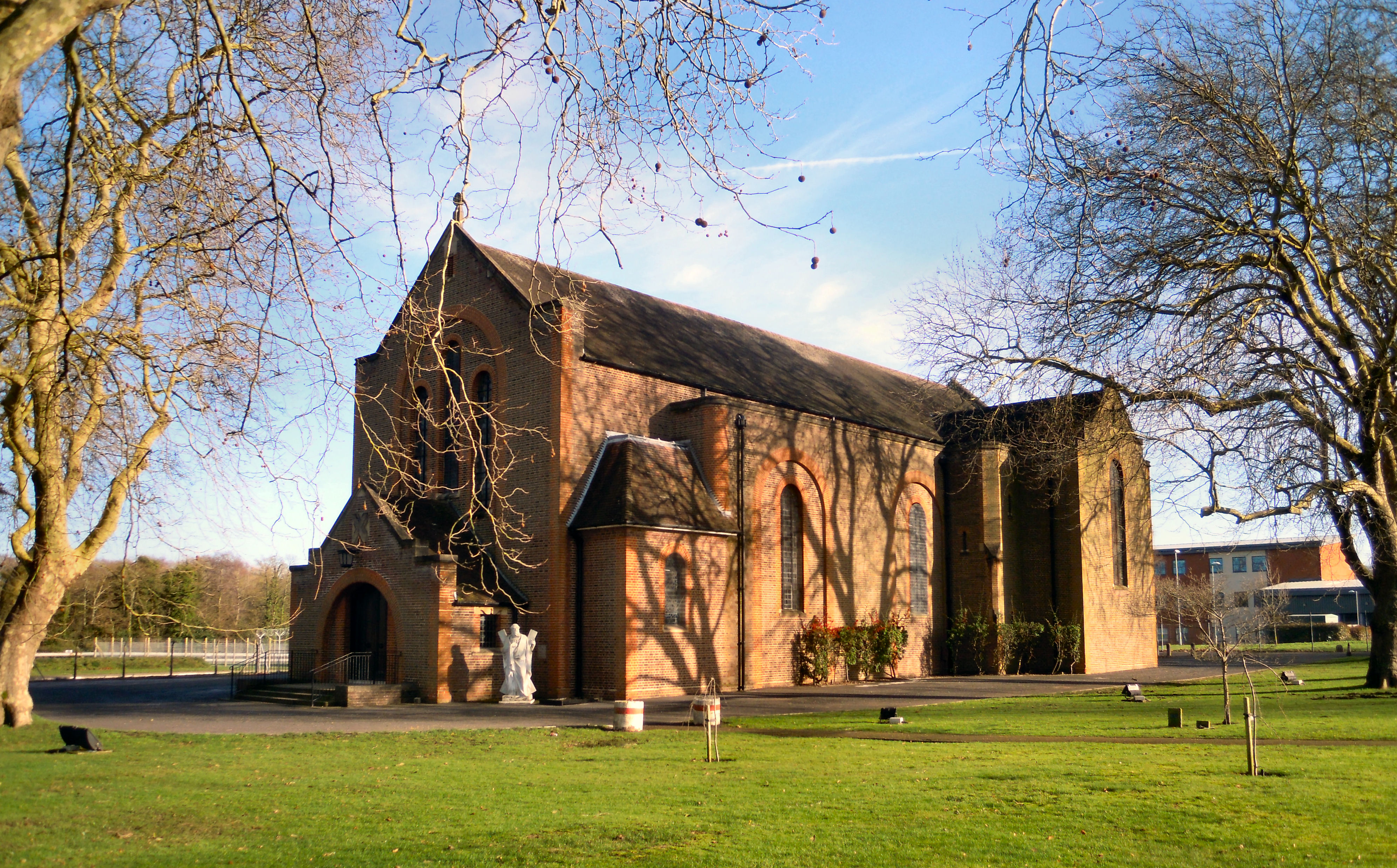 St Andrews Garrison Church in Aldershot in Hampshire